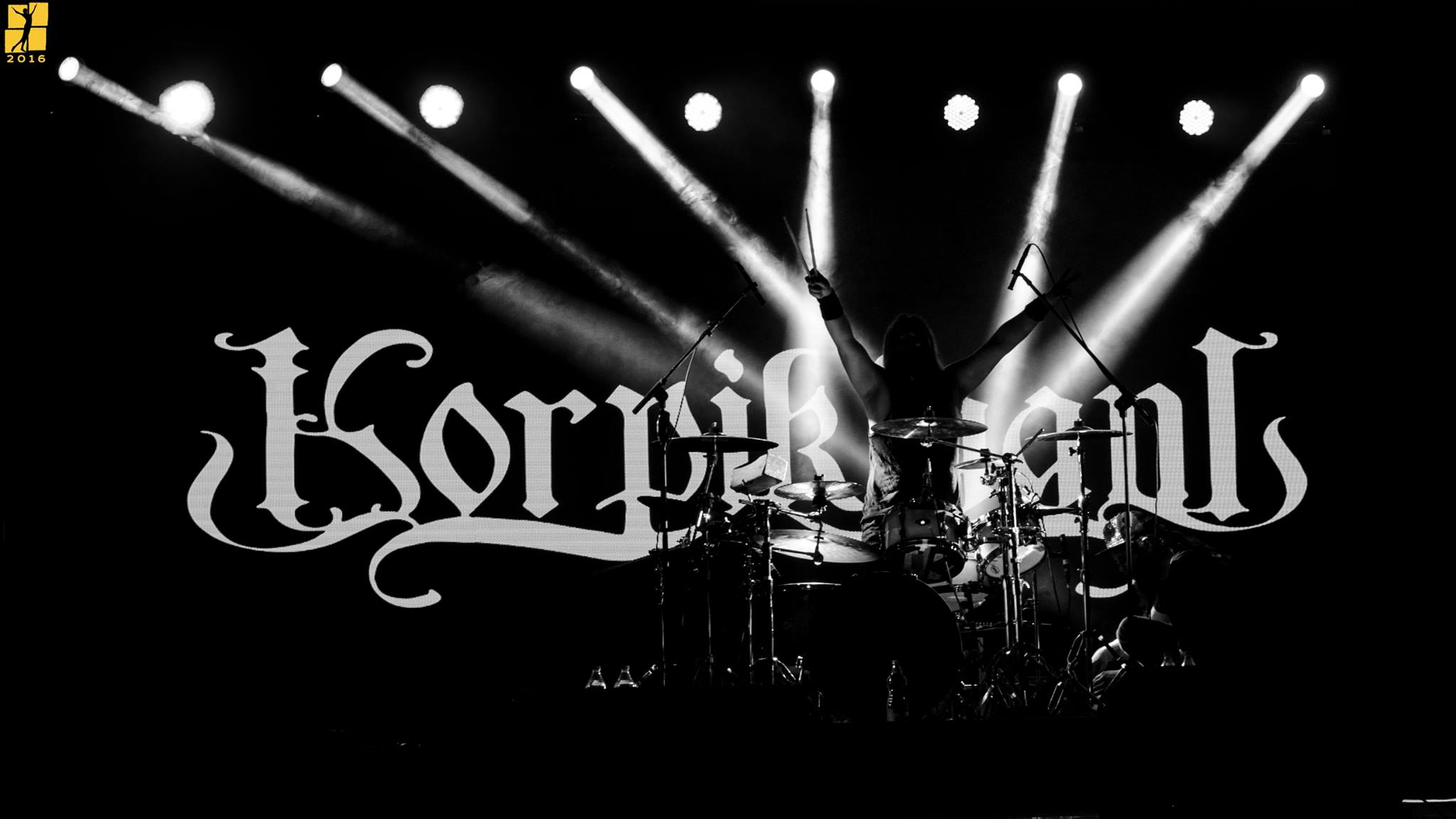 Korpikilaaniatalcher